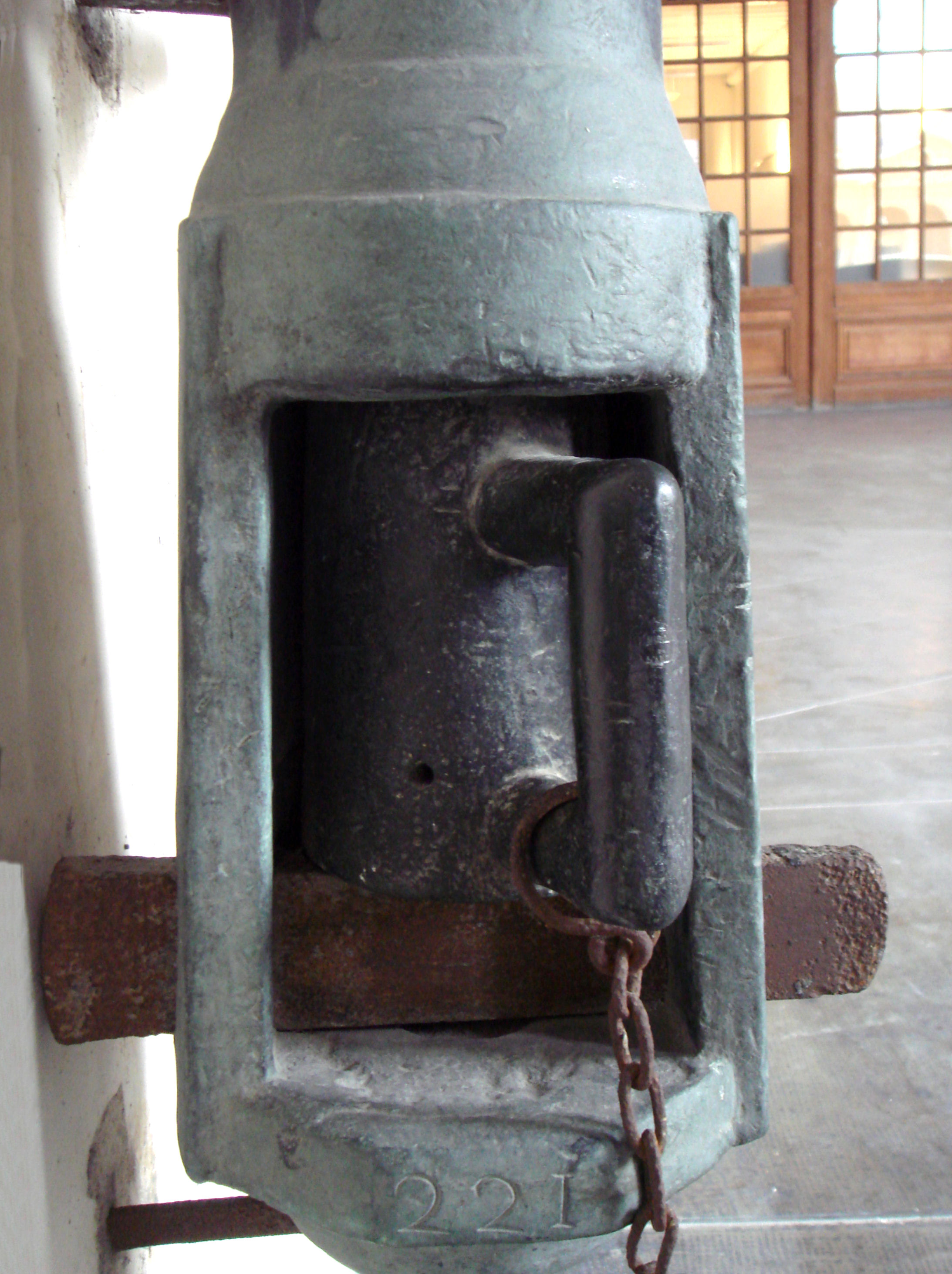 Breech_loading_swivel_gun_with_mug_and_wedge. Musee de l'Armee. Paris.